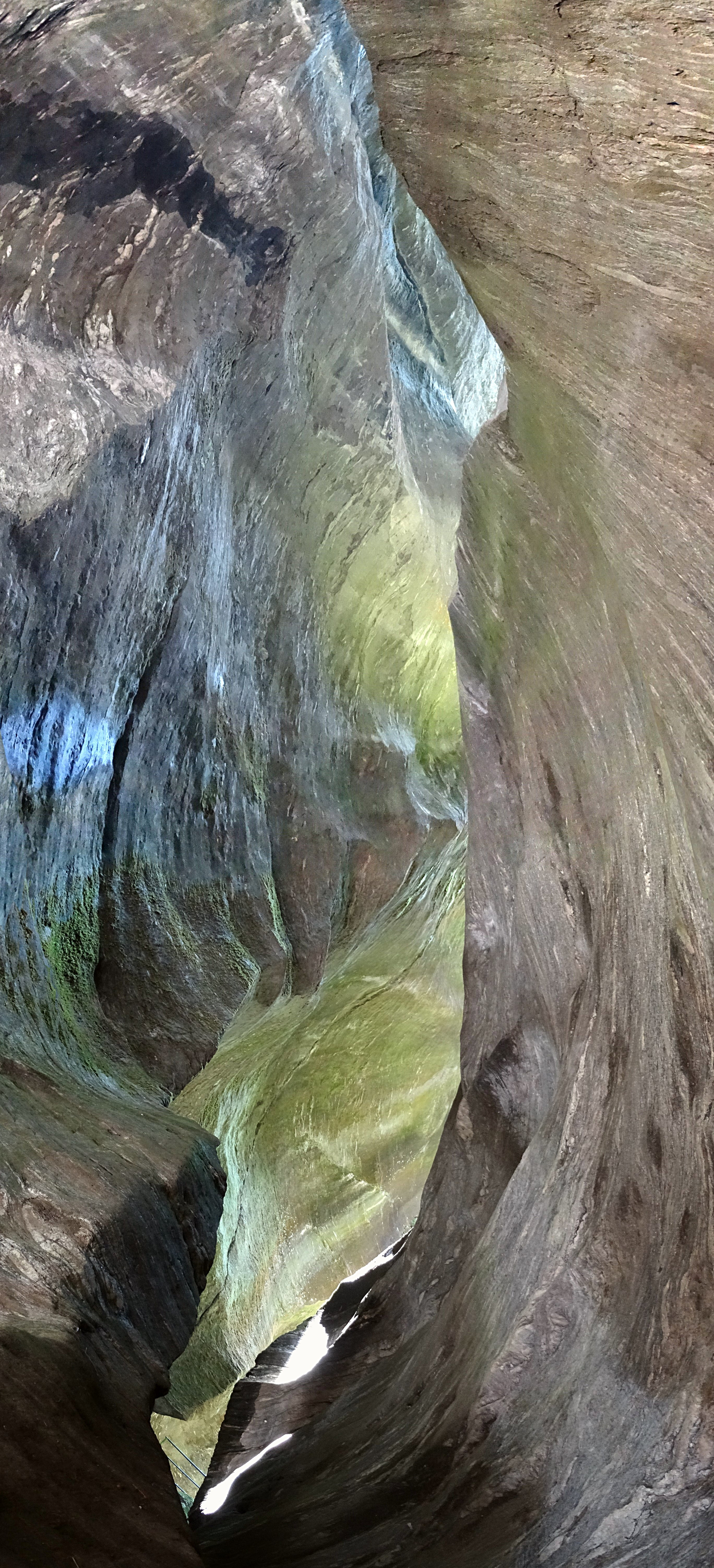 in the south canyon of Uriezzo, View to the top